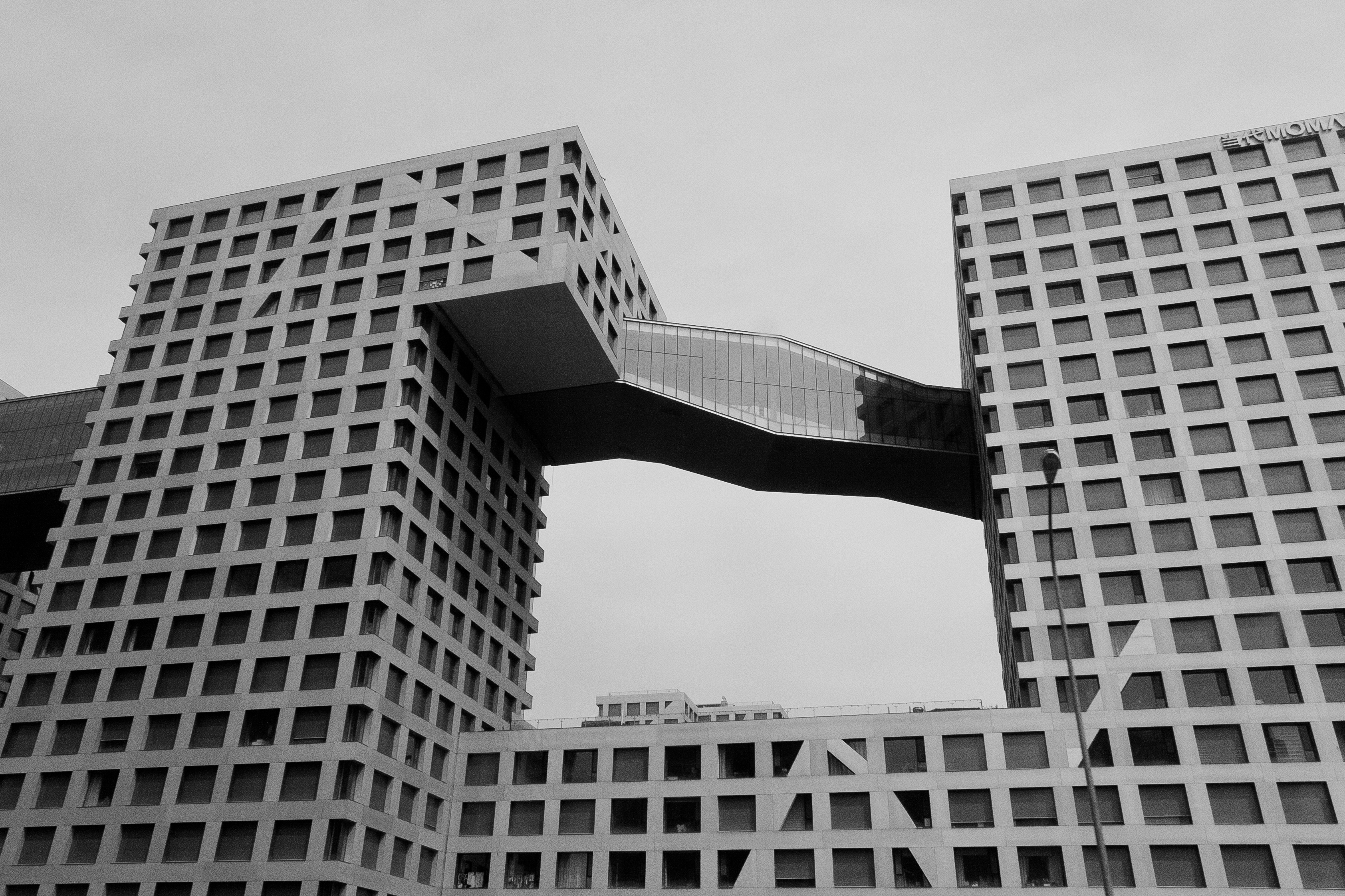 Linked Hybrid building by architect Steven Holl 英文名Linked Hybrid,意译为“连接的复生体”，中文名“当代MOMA”。